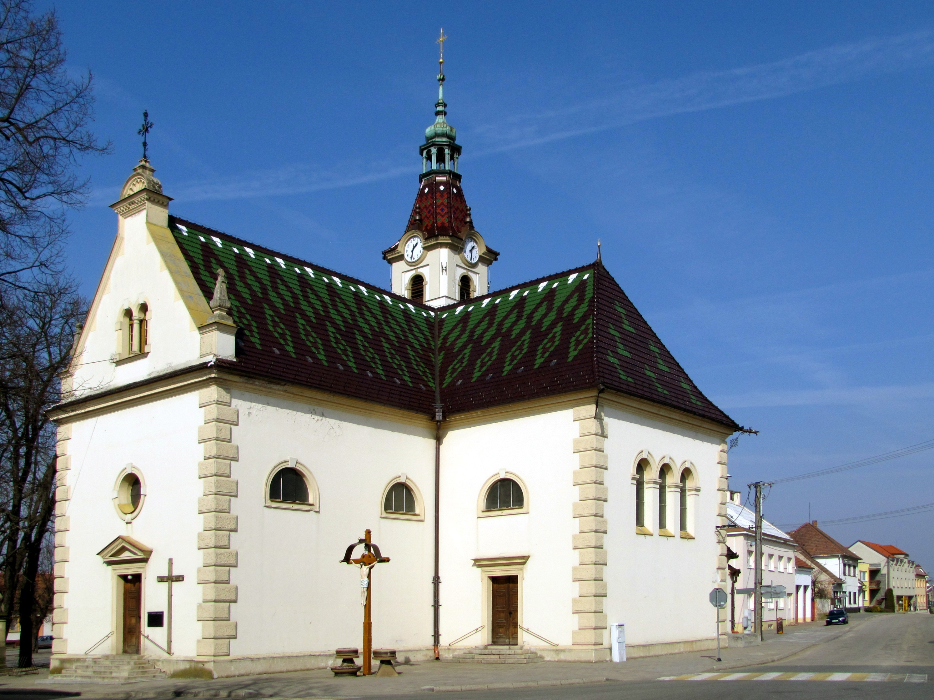 Lanžhot, Moravia, church